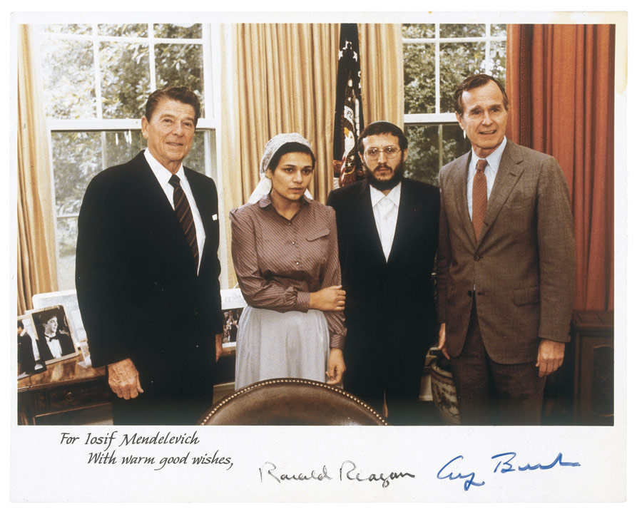 President Reagan and Vice President Bush meet with Avital Sharansky (wife of then-jailed Soviet dissident Natan Sharansky) and Yosef Mendelevitch.